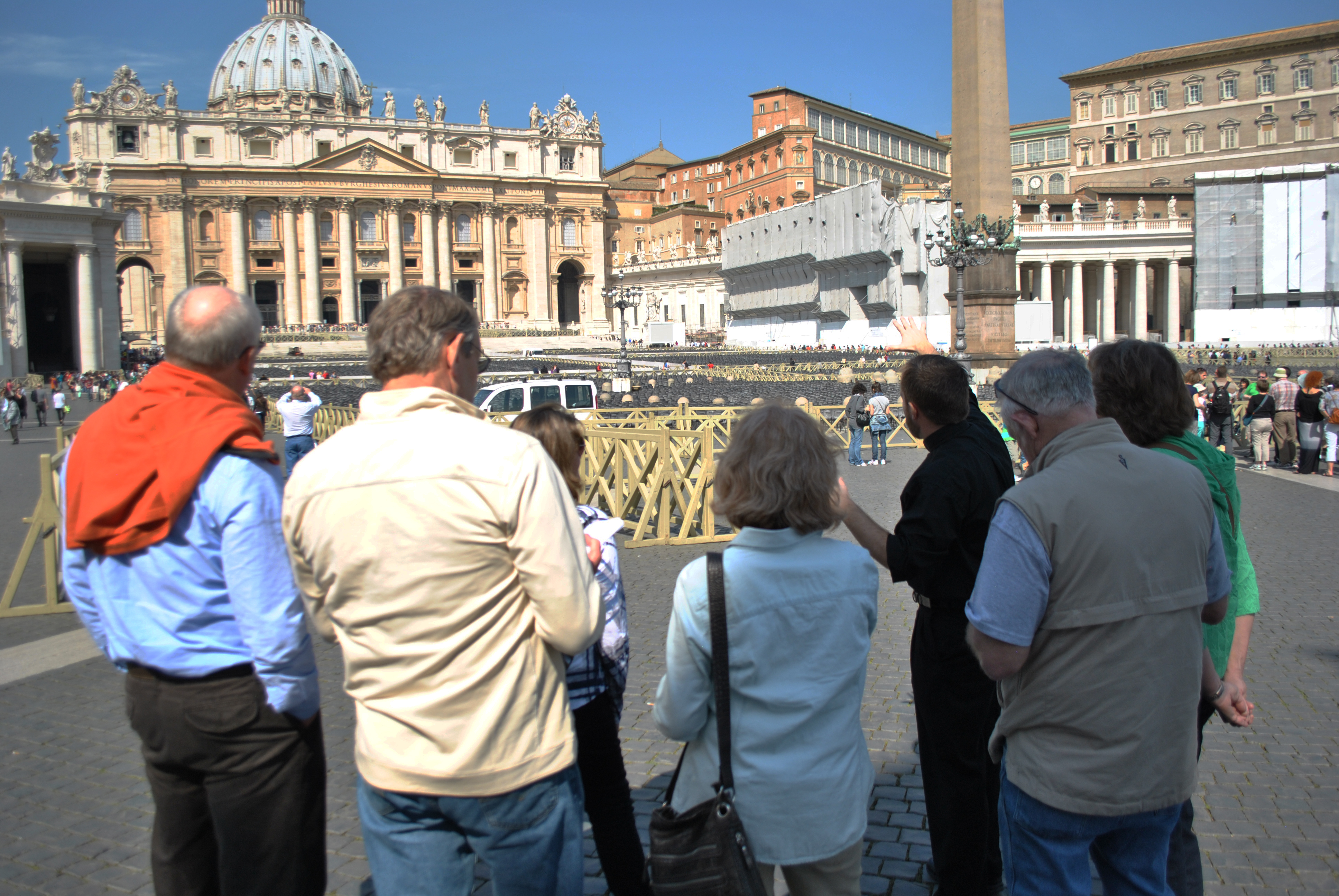 A tour guide addressing a group of tourists in St. Peter's Square